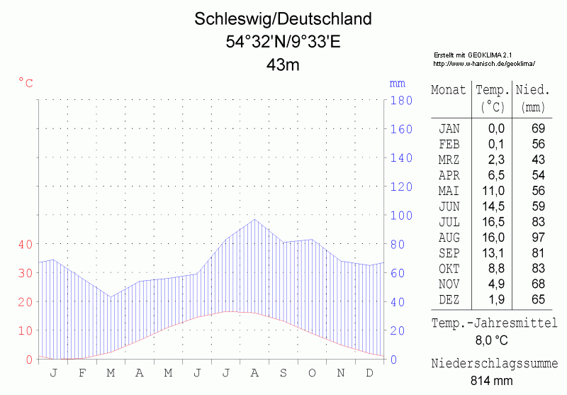 climate chart in the format by Walther and Lieth, metric, °Celsisus and millimeters, made with Geoklima 2.1